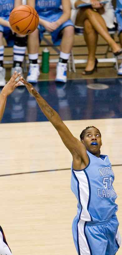 Jessica Breland at Connecticut 1/21/2008